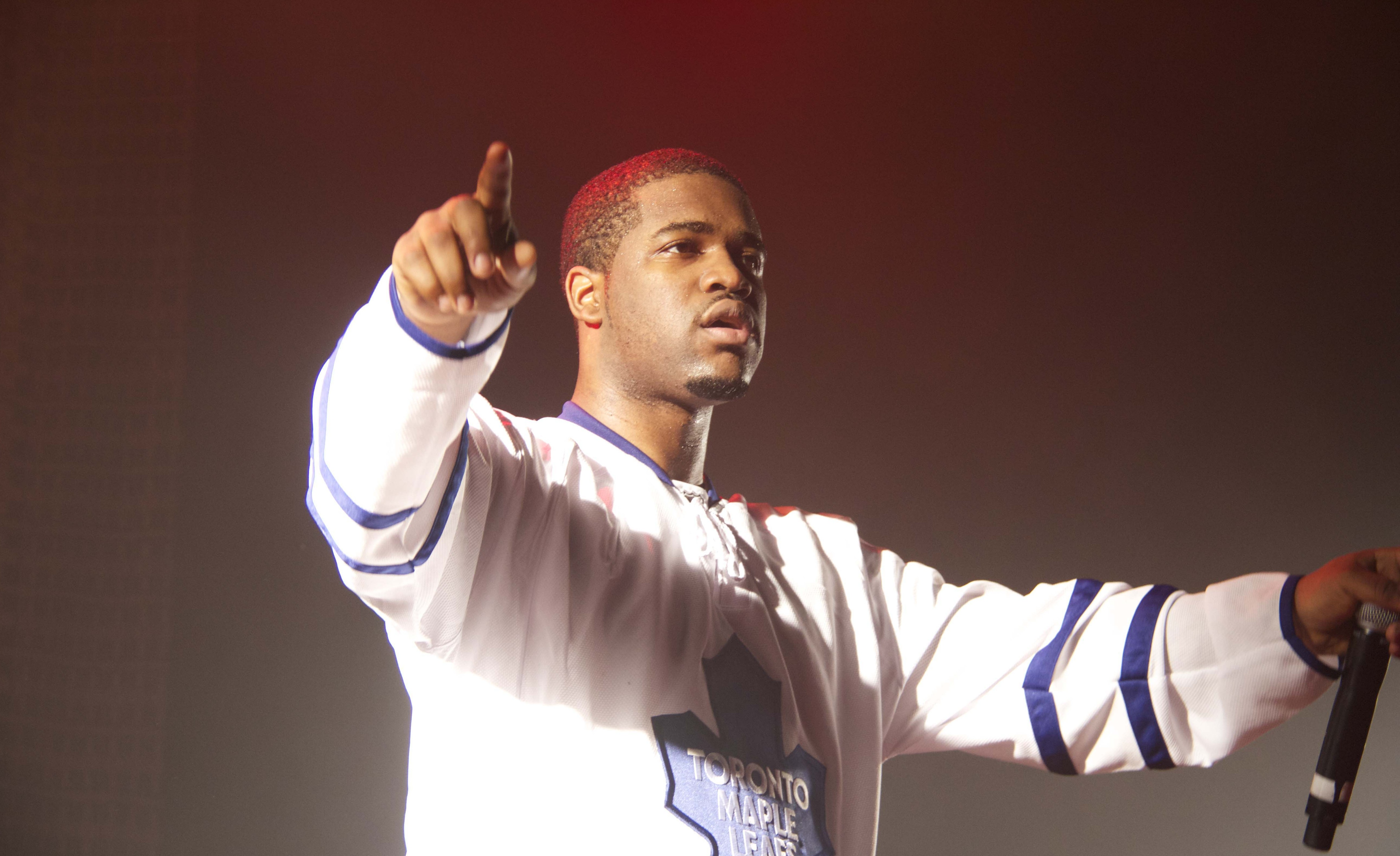 ASAP Ferg Live In Concert Dec 11, 2013 @ The Opera House (Toronto) Photography by CZR-E for The Come Up Show. Check out the review at